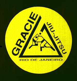 Gracie